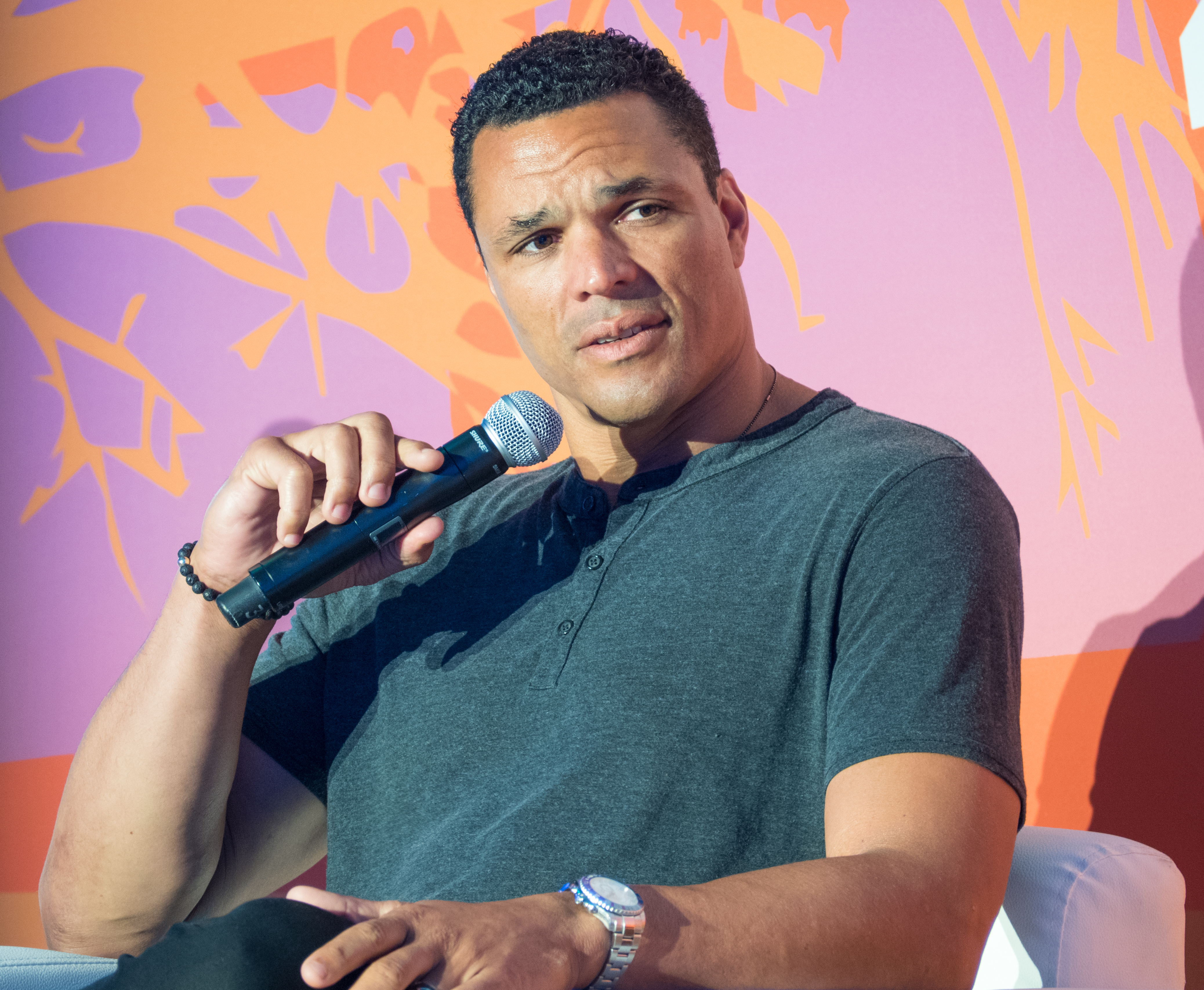 Tony Gonzalez at Ozy Fest